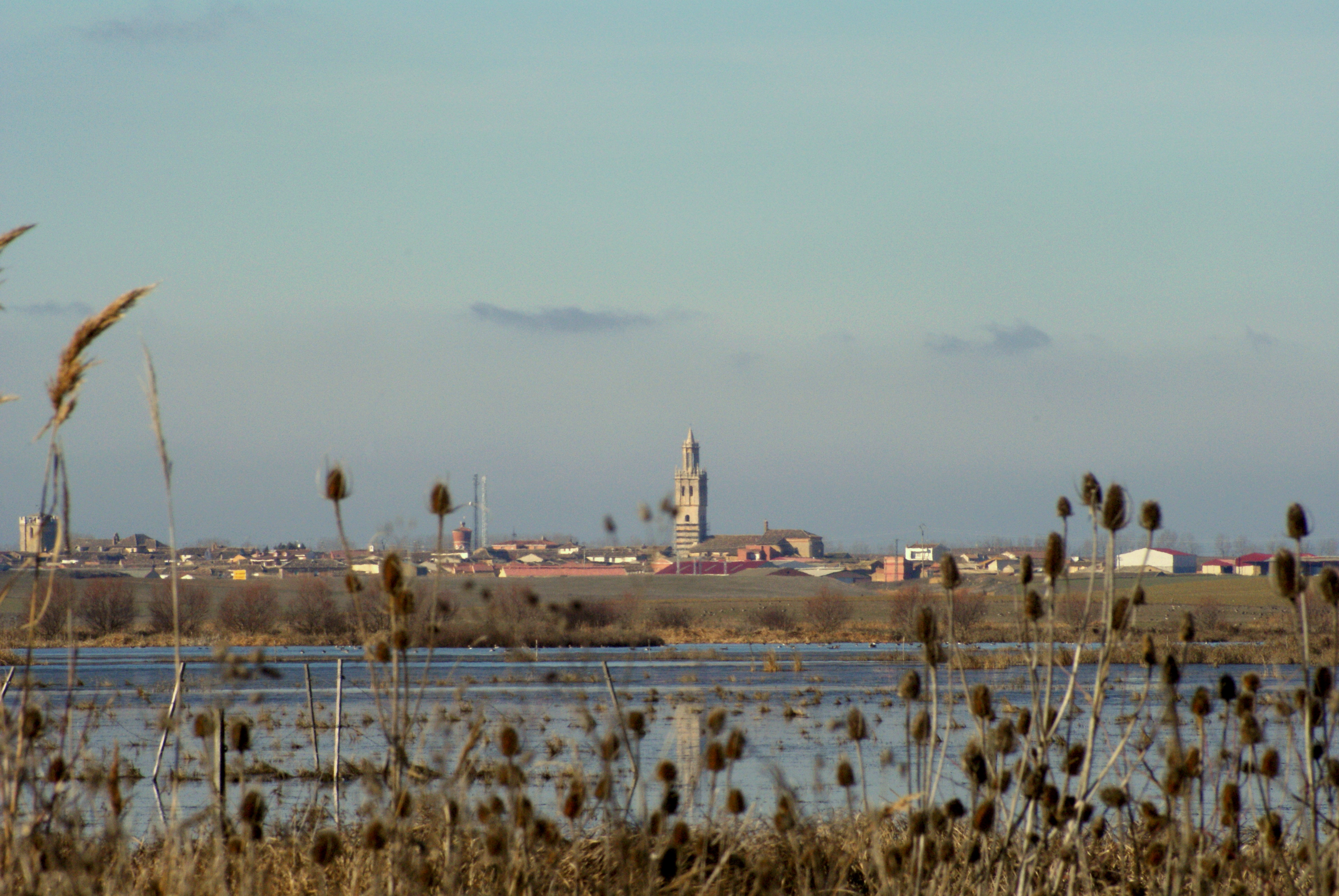 Partial view of the Lagoon "la Nava de Fuentes", in Palencia, Spain.